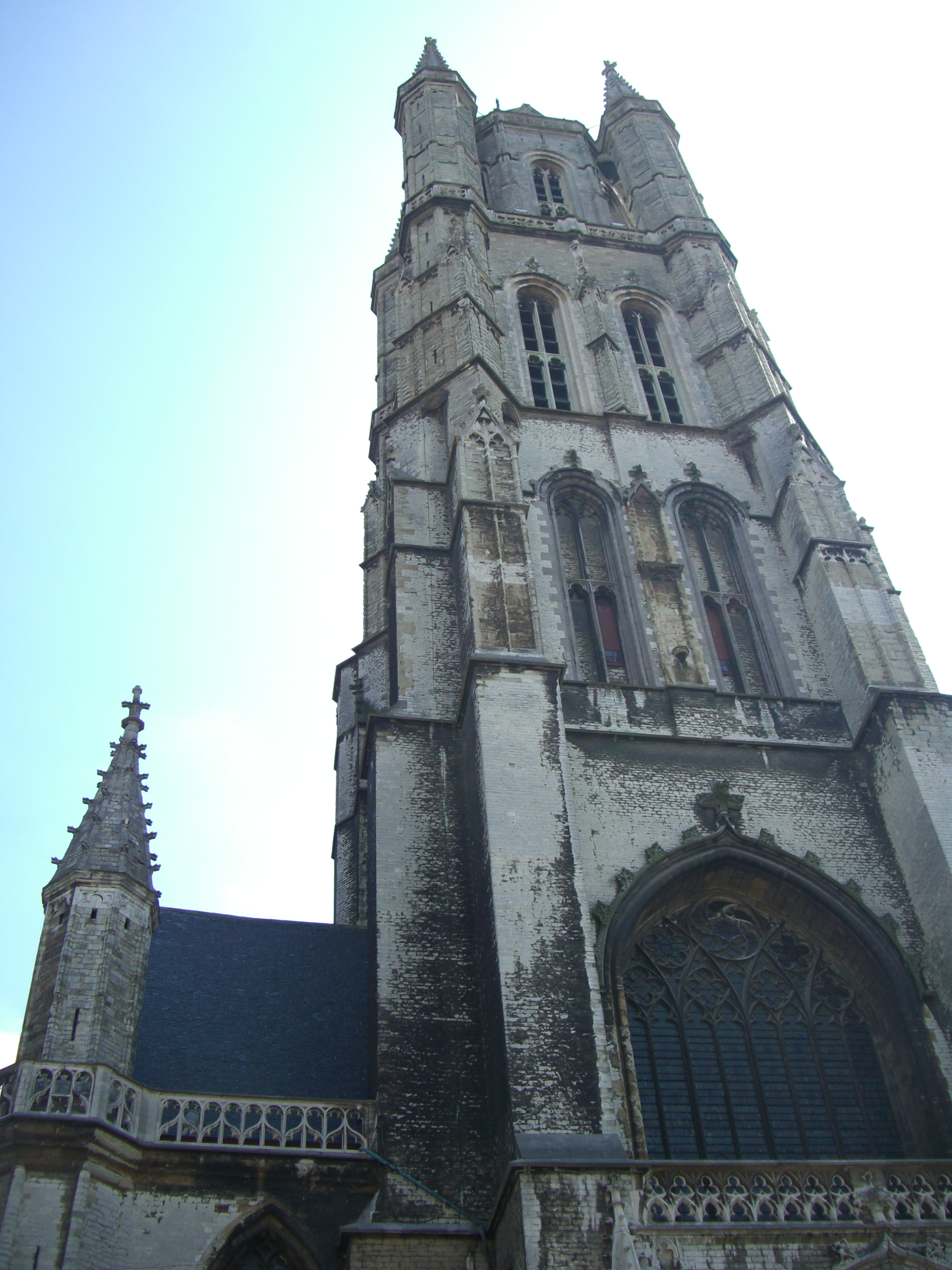 Saint Bavo Cathedral